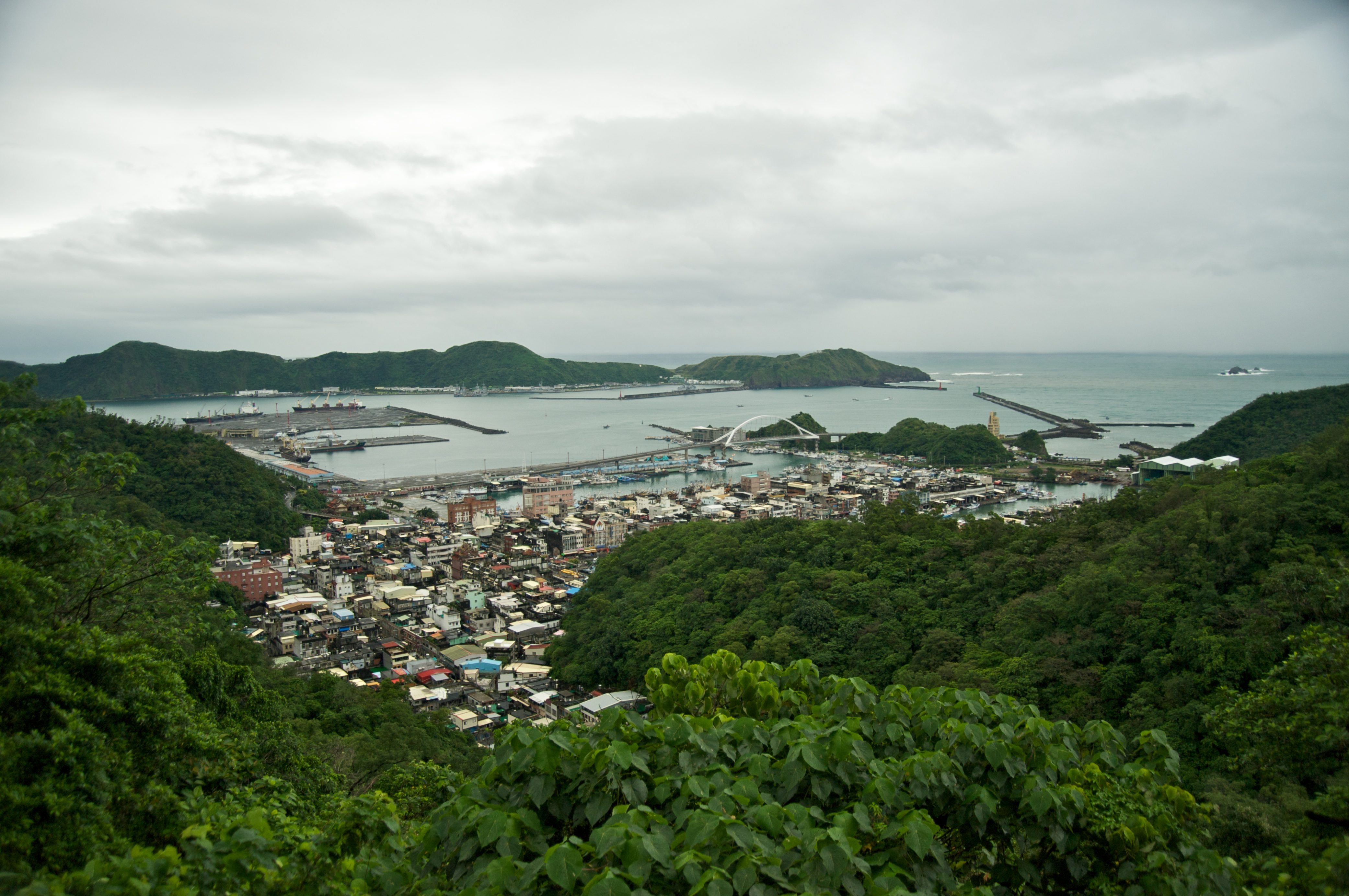 SuAo Port as seen from the SuHua Highway, a scenic drive on the east coast of Taiwan